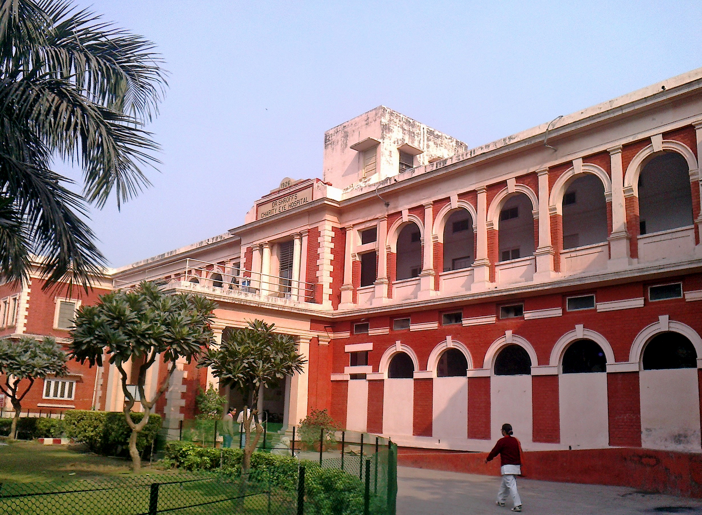 Dr. Shroff's Charity Eye Hospital, Daryaganj, Delhi. This building was established in 1926, while the hospital was established in 1916.